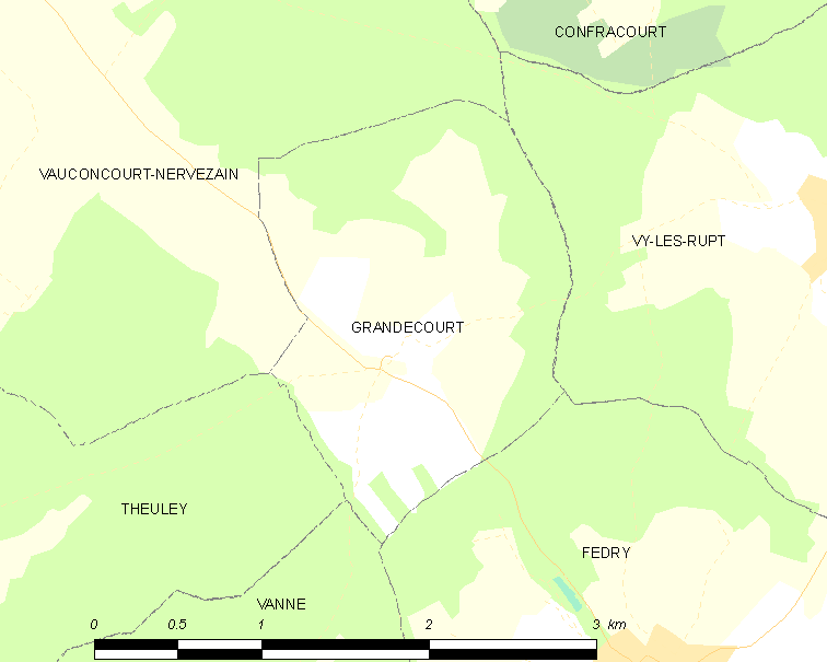 Map of French municipality